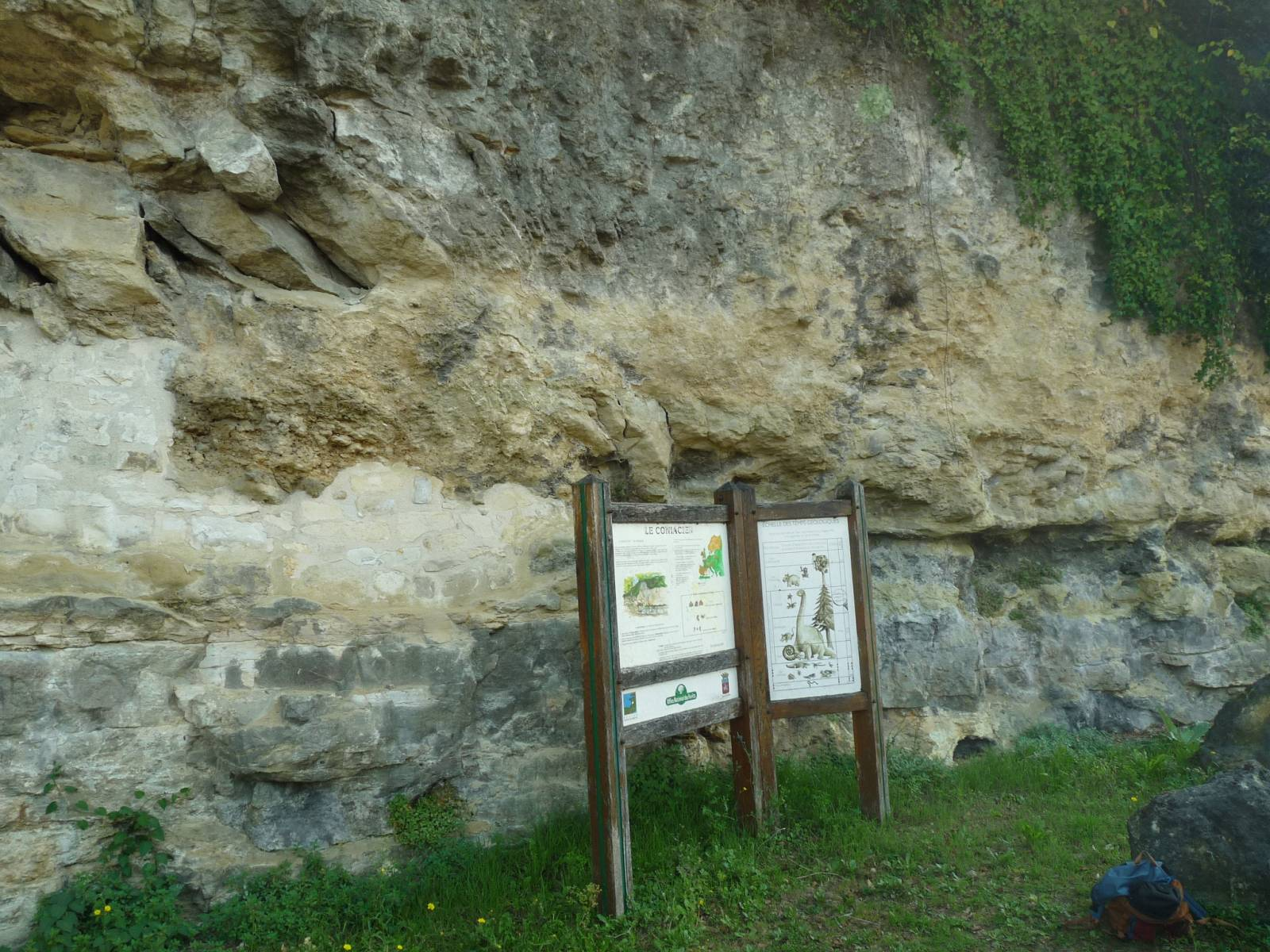 Cretaceous limestone at Cognac, Charente, SW France